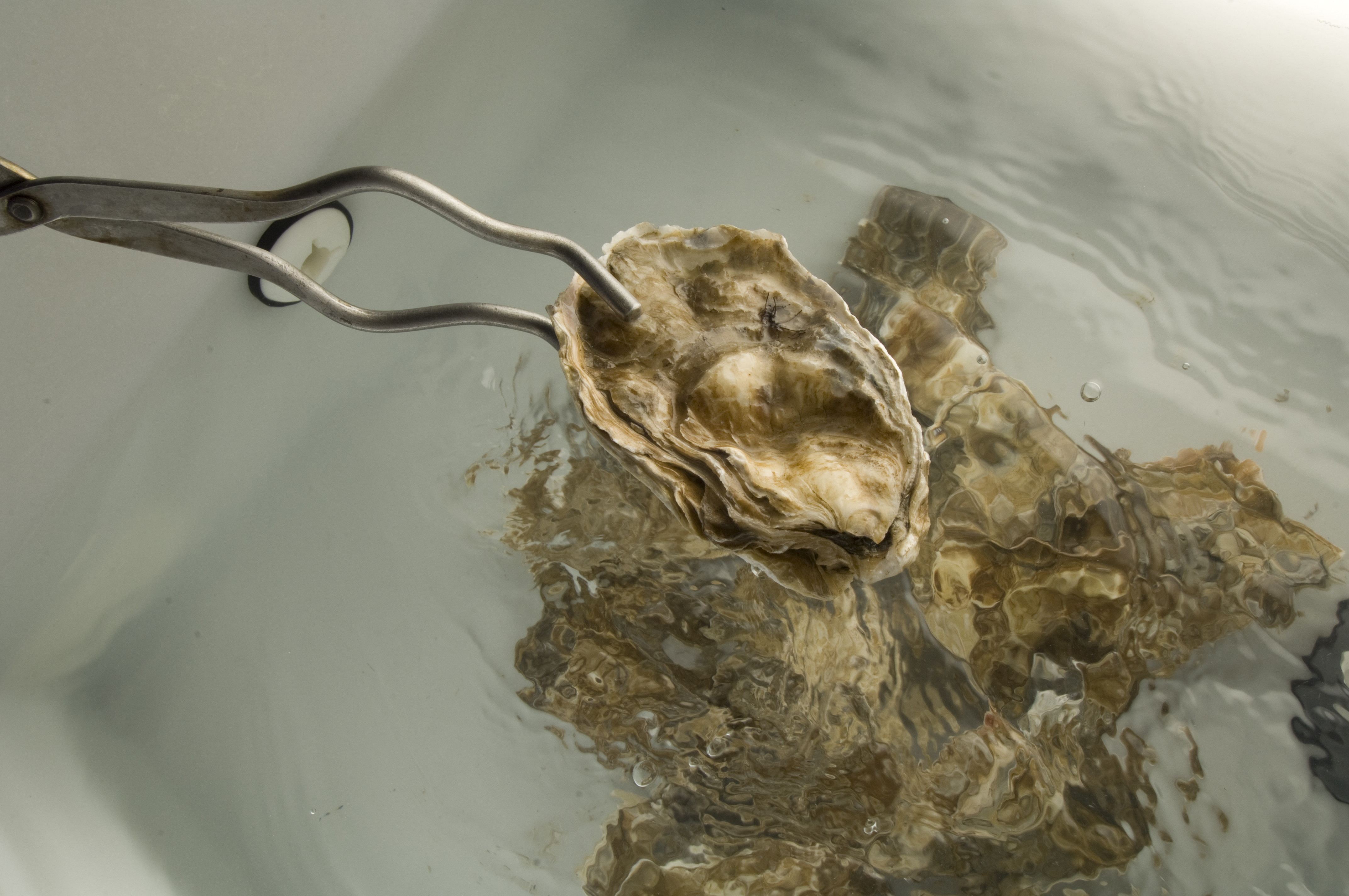 Oysters filter water in a depuration tank at Oregon State University's Seafood Laboratory in Astoria. As the oysters filter the water, they excrete harmful bacteria from their digestive tracts and become safe to eat. (Photo by Lynn Ketchum.) FULL STORY